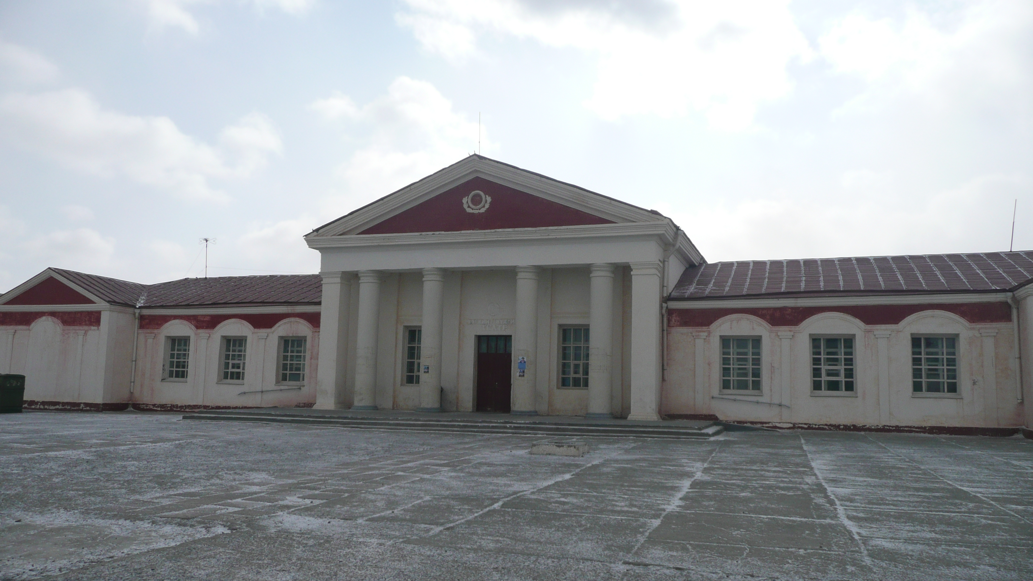 Theater of Dalanzadgad